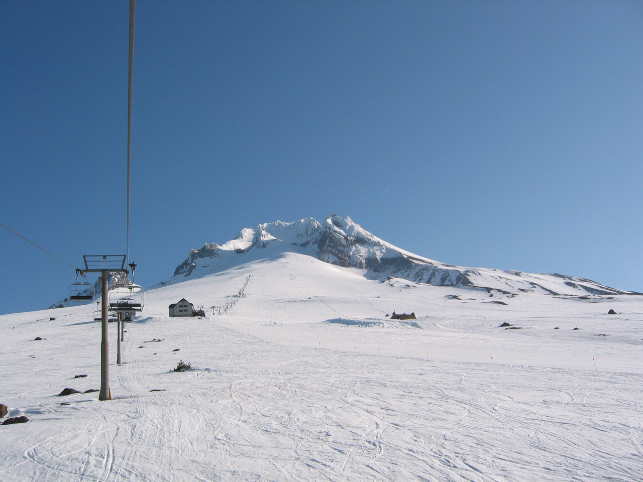 Timberline Lodge Ski Area on Mount Hood, showing the Magic Mile and Palmer chairlifts with Silcox Hut at right center.